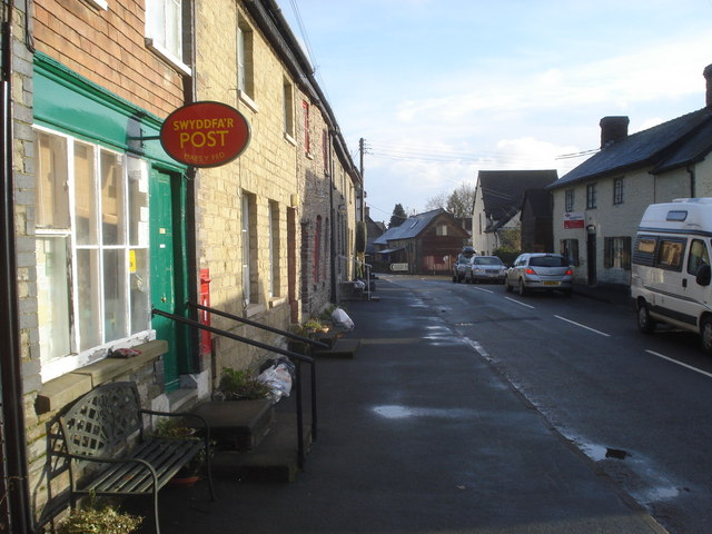 New Radnor Post Office View north-east to the road junction. This small post office was the only one for miles around, but sadly it closed July 2008. This was not a Royal Mail closure, but rather the owner could not make it a going concern so has sold the house.